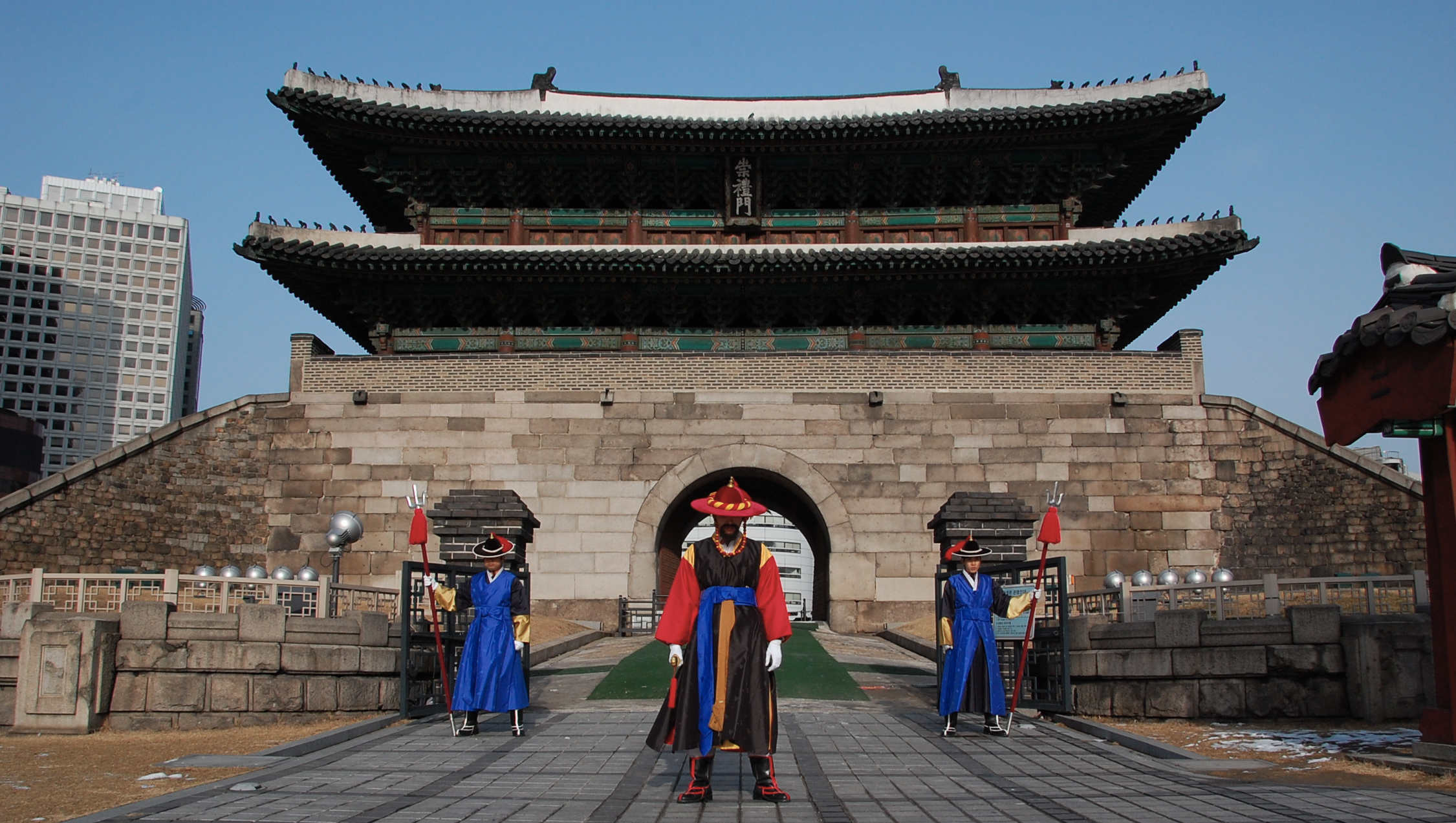 Sungnyemun or Namdaemun is a historic gate located in the heart of Seoul. The landmark is officially called Sungnyemun (Hangul: 숭례문; Hanja: 崇禮門; literally "Gate of Respecting Propriety").